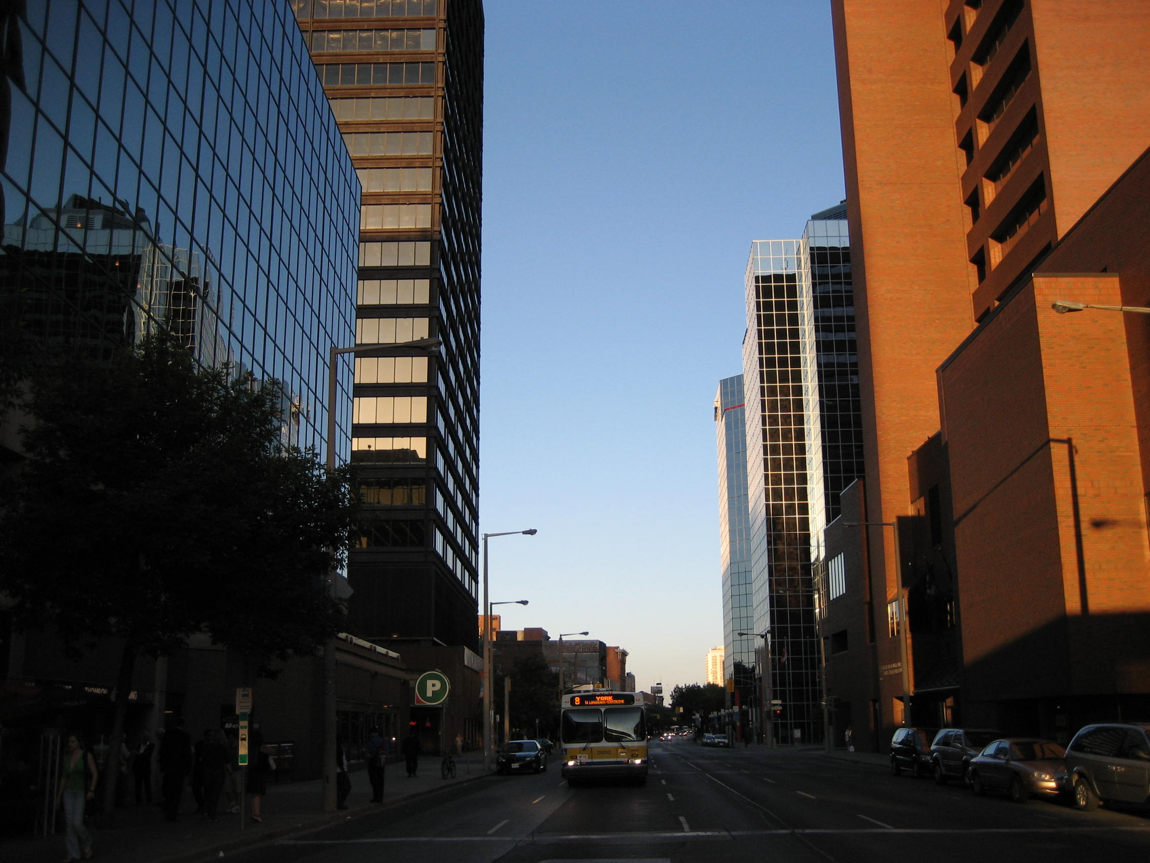 King Street West, looking East, downtown Hamilton